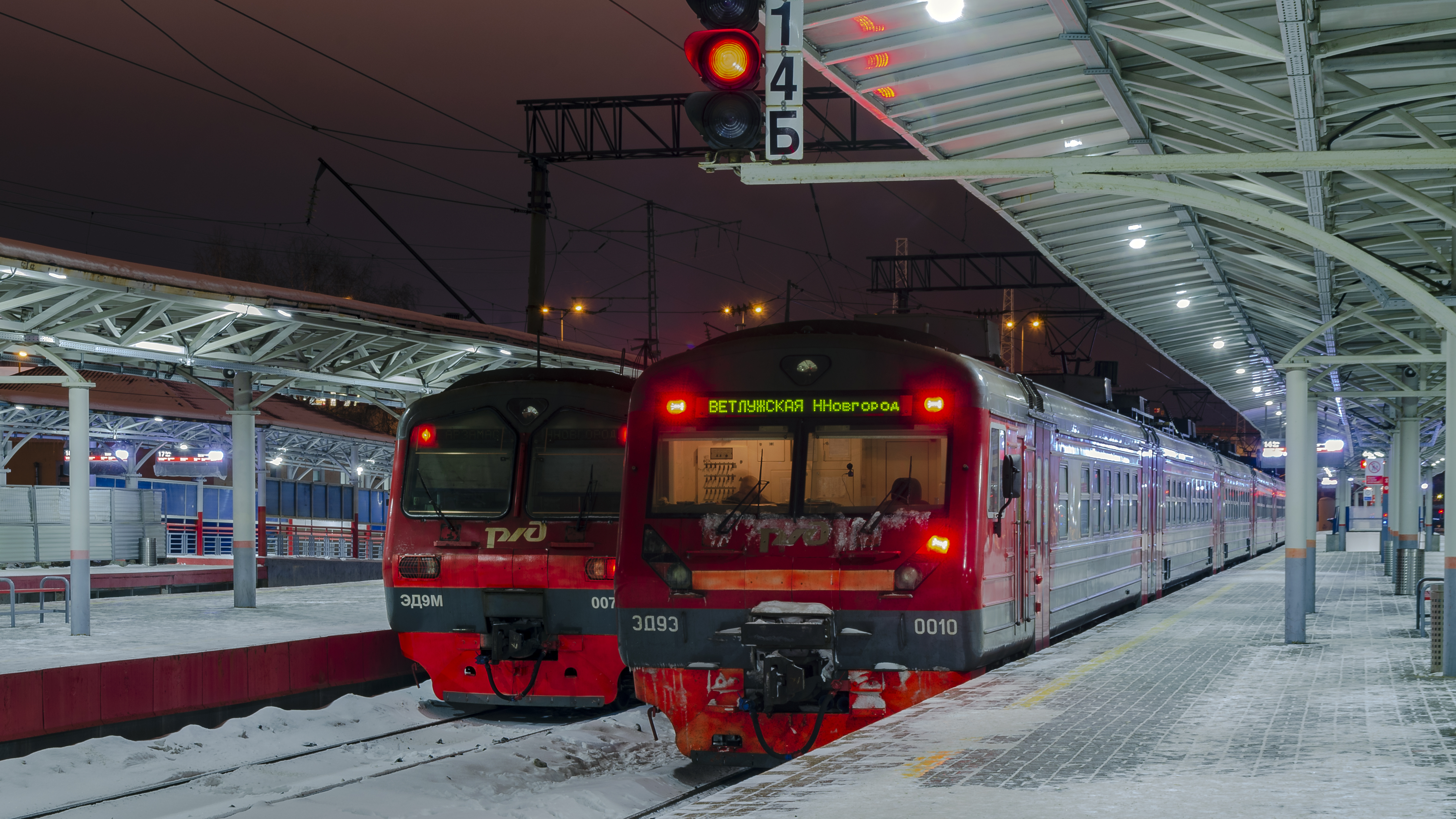 Suburban train "Vetluzhskaya - Nizhny Novgorod" on the platform number 5 of the Moscow railway station in Nizhny Novgorod